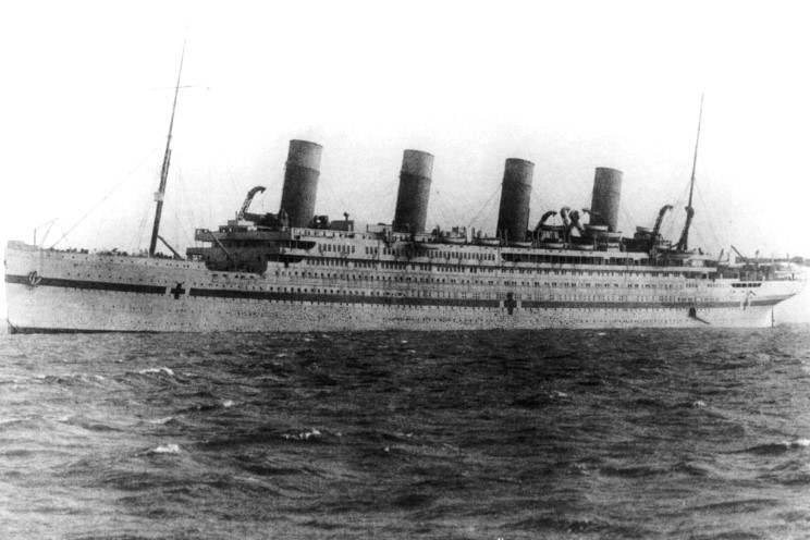 HMHS Britannic seen during World War I.